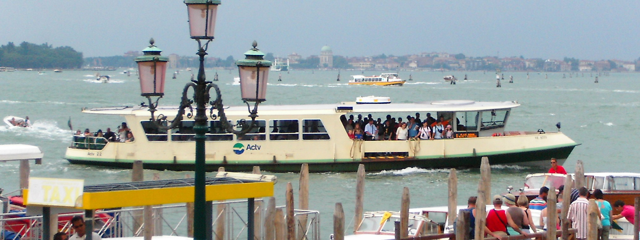 New type of Vapporetto for pubblic service (ACTV) in Venice, Italy